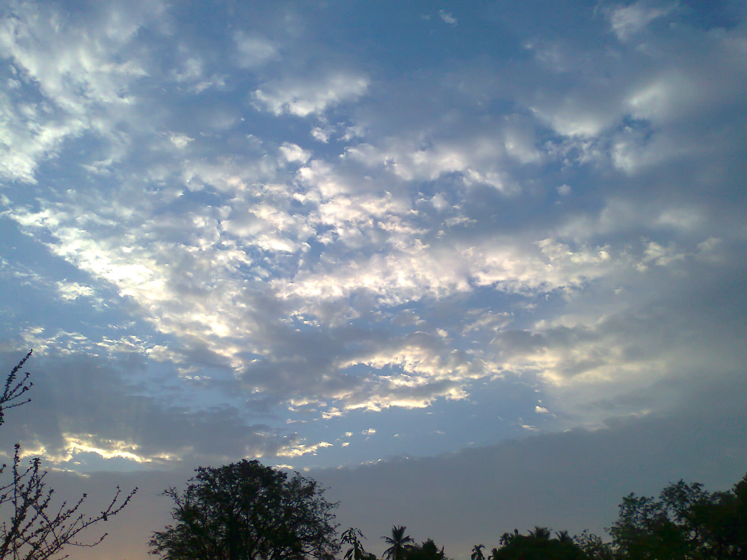 This image describes the climate in Peranankila